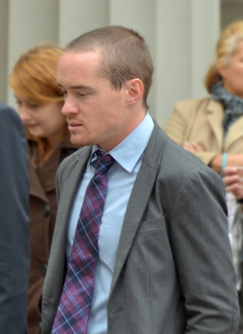 Kent Ekeroth, member of the Riksdag for the Sweden Democratic Party.